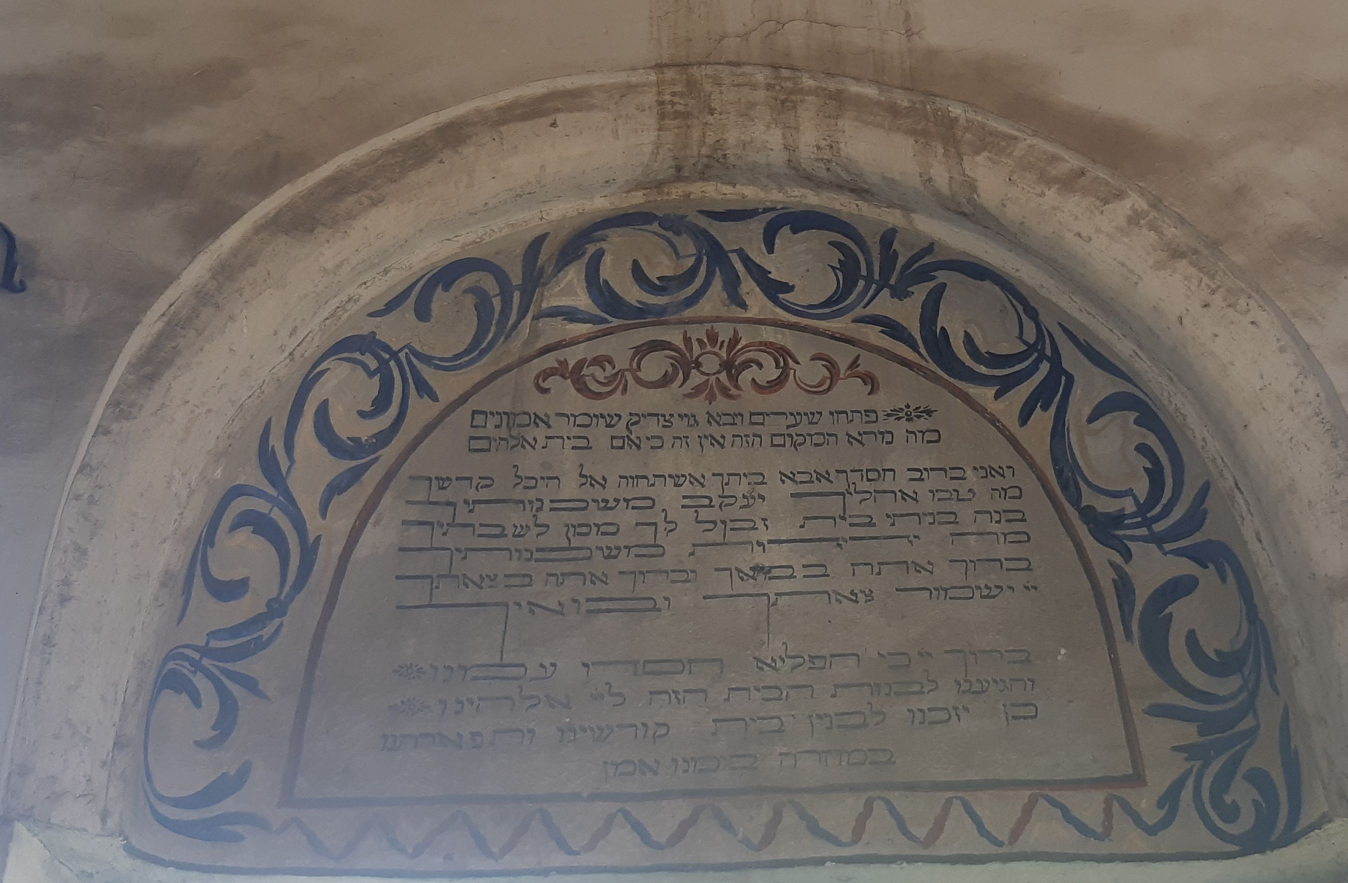 Entry writing